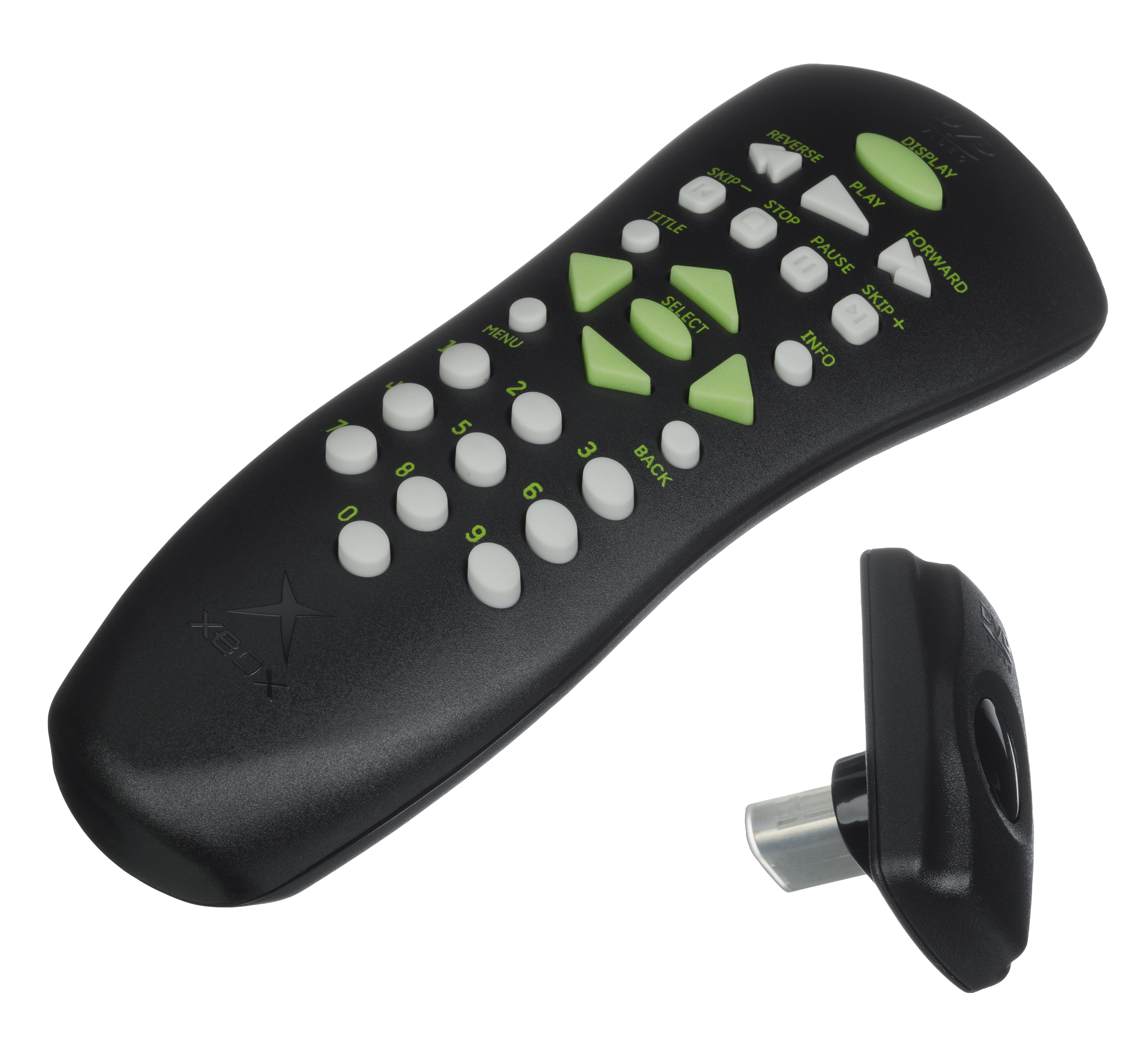 The official DVD remote control for the Xbox video game console. This remote and IR dongle were required to play DVDs on the system, as Microsoft didn't want to pay for DVD movie licensing on every Xbox sold. The separate and required remote incorporated the cost of the license into it, meaning only people who wanted to watch movies on it paid for it.